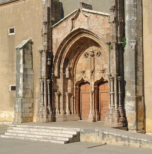 Jesus Convent in Setúbal, Portugal. Photographer: Osvaldo Gago